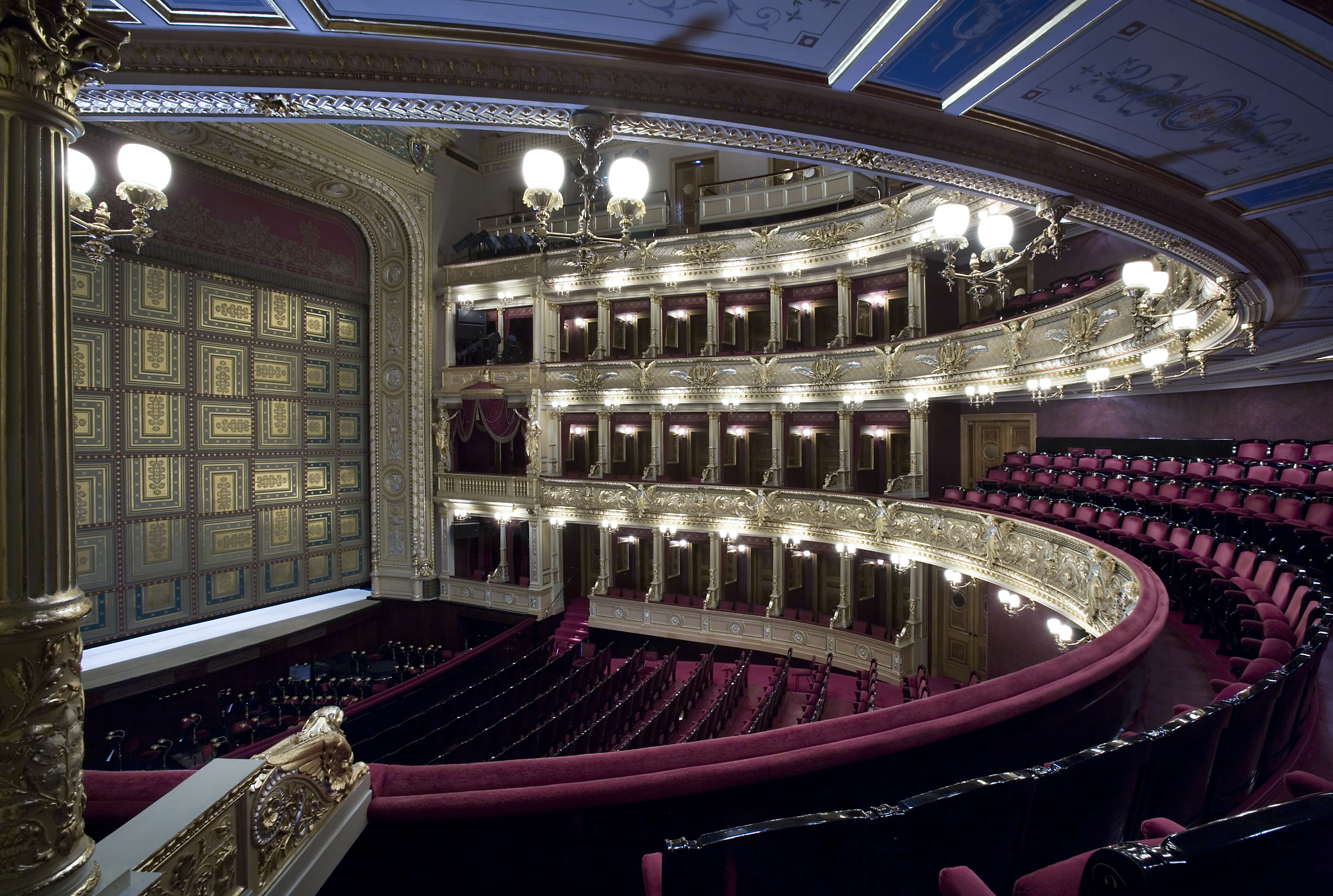 Narodni Divadlo, National Theater, Prague